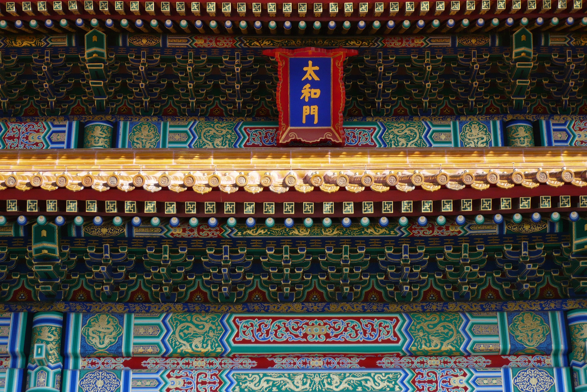 Tai He Gate color paint longevity pattern and water drop pattern